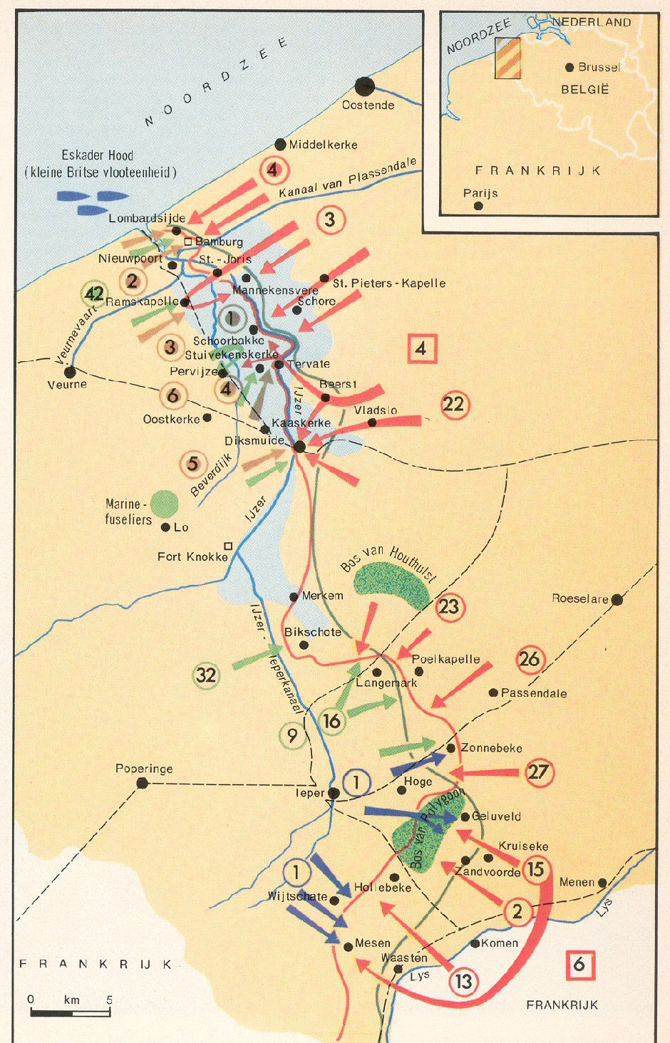 Pervijze op de kaart